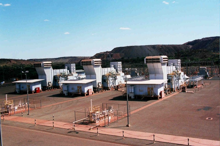 Newman Power Station is a 178MW gas-fired power station in the Pilbara region of WA.